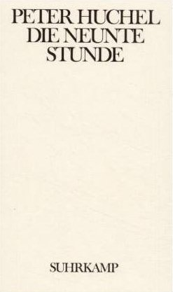 Book cover of Peter Huchel "Die neunte Stunde" 1979